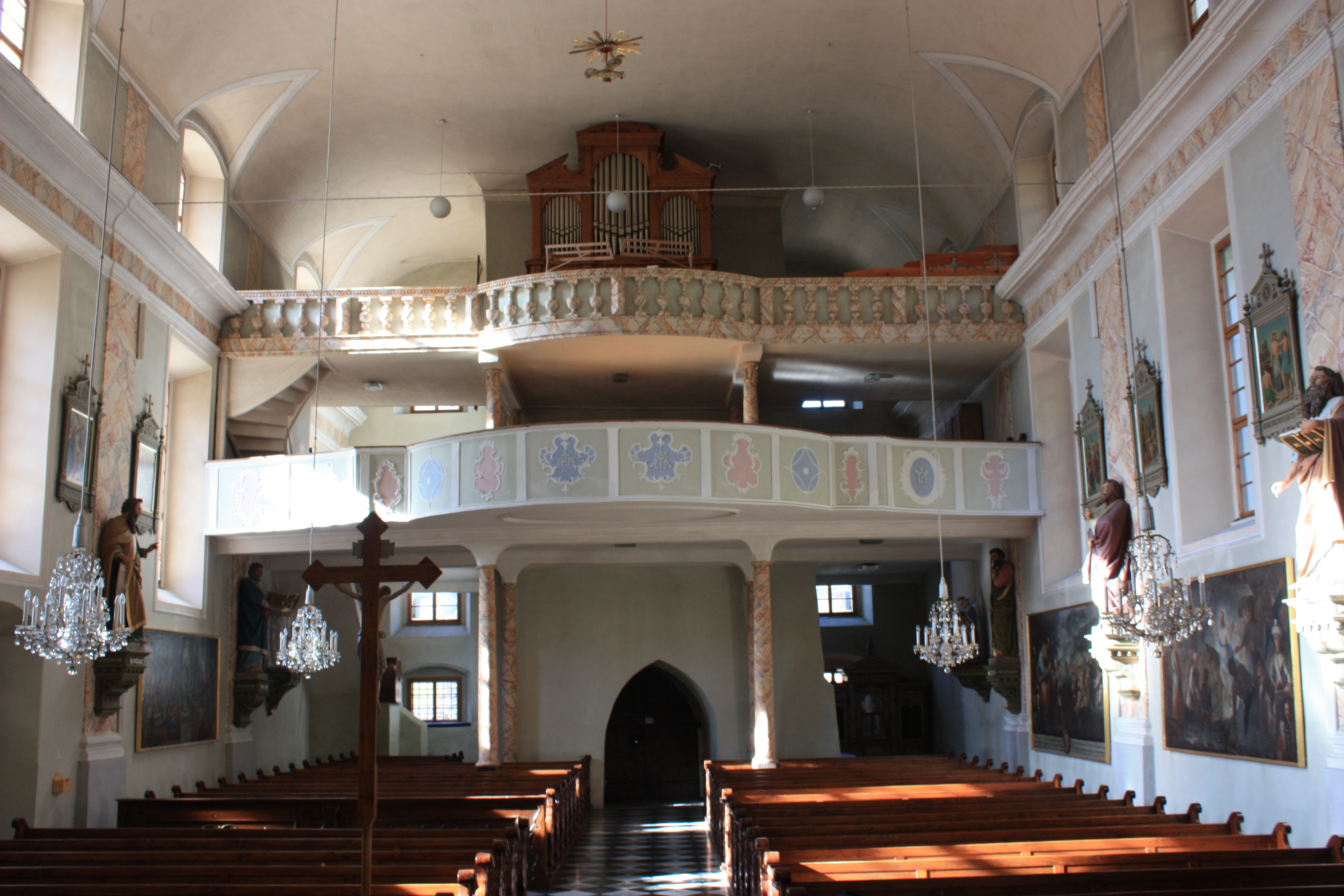 Parish church St. George - View to the organ loft Locality: Sagritz Community:Großkirchheim